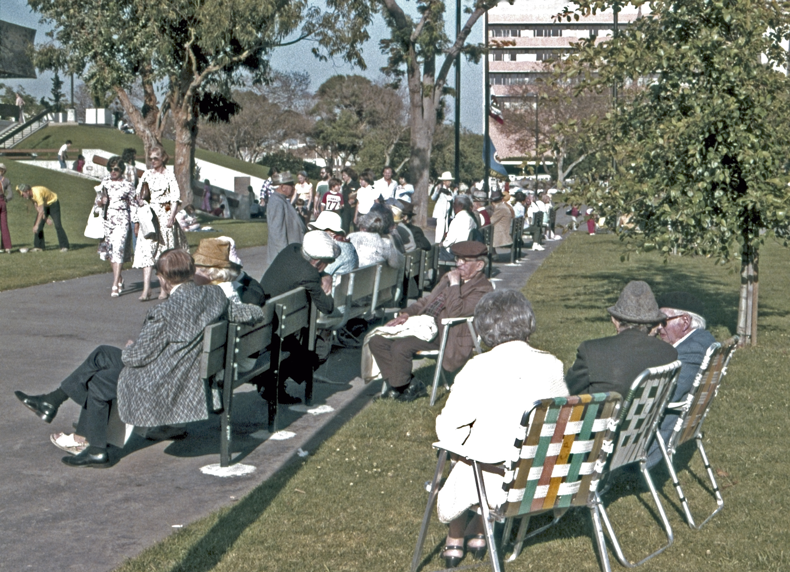 Sunday visiting near the George C. Page Museum. (Scanned from EastmanColorRGB-100 Slide)